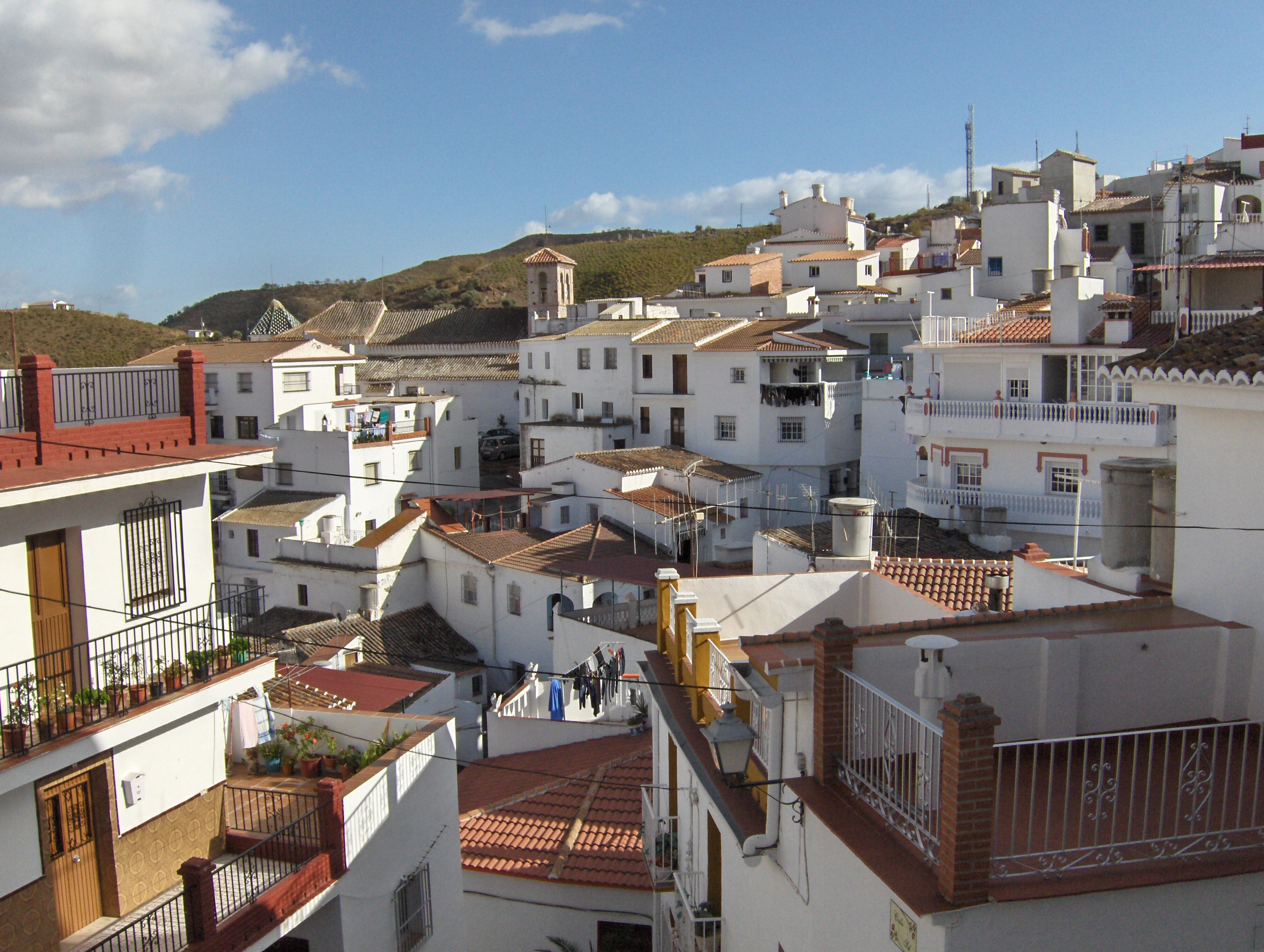 View of Almáchar, Málaga, Spain.